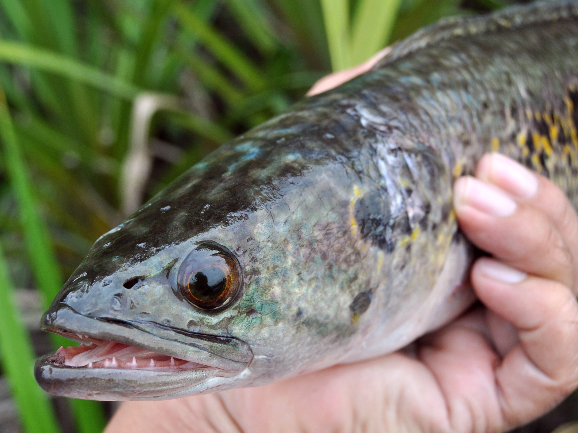 Channa pleurophthalma, ca. 36cm SL (standard length); head close up. From Central Kalimantan, Indonesia.